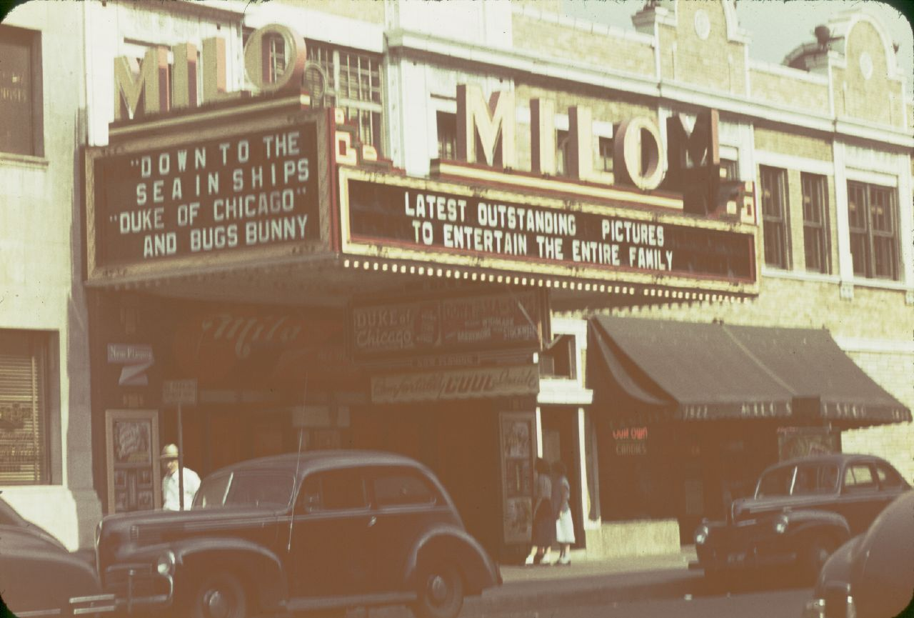 Milo Theater, 1821 S. Loomis Street, , Chicago, IL, United States showing the films Duke of Chicago (1948) and Down to the Sea in Ships (1949). Status: Closed/Demolished Screens: Single Screen Style: Spanish Colonial Function: Unknown Seats: 925 Chain: Unknown Architect: Unknown Firm: Unknown Add a photo for this theater! Built in 1925 as the Milo, and located in the Pilsen neighborhood of Chicago, this theater could originally seat just over 900. It was designed inside and out in the Spanish Colonial style, an uncommon style in Chicago for movie houses. As the neighborhood changed from one founded by Bohemian immigrants to mostly Latino, as it remains today, the Milo's name also changed, first from the Villa Theater, then to its Spanish translation, Teatro Villa. In its last years in operation, it showed Spanish-language films before closing in the late 60s. The theater has been demolished and replaced by a parking lot. Contributed by Bryan Krefft YOUR COMMENTS Amazingly facinating Mexican horror films (Aztec Mummy?) shown here in the mid-60's!! posted by Ben Cybulski on Mar 11, 2004 at 3:37pm The theatre has been closed since the late 60's? They never did anything with it? posted by RobertR on Mar 11, 2004 at 4:02pm Here is a 2000-dated photo of 1821 S. Loomis Street. According to the Assessor's Office, the parking lot has been there 13 years (as of 2003-4). I would assume the theater was torn down then around 1990. posted by Bryan Krefft on Jun 9, 2005 at 7:51pm Chicago - Pilsen